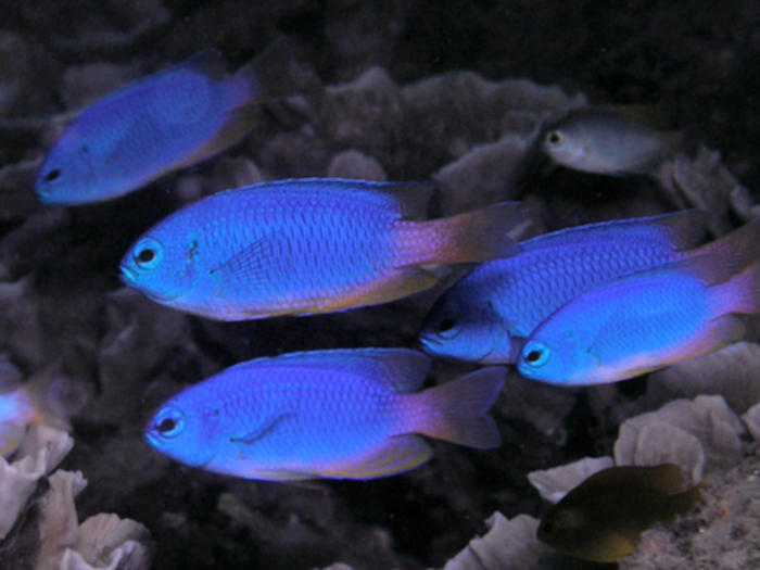 Neon damselfish (Pomacentrus coelestis) from East Timor.